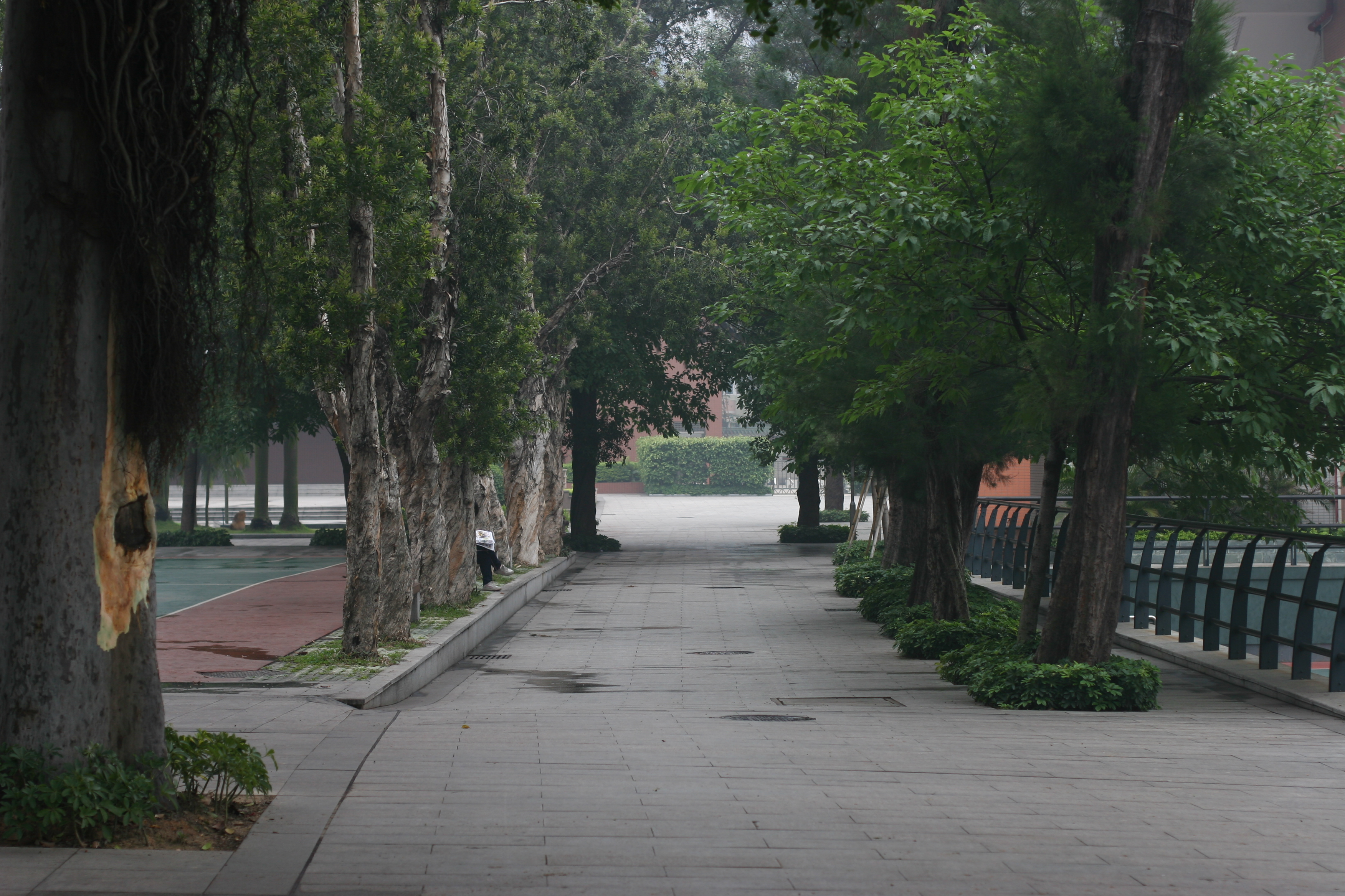 The Xiuyuan Road in Guangzhou Xiehe High School